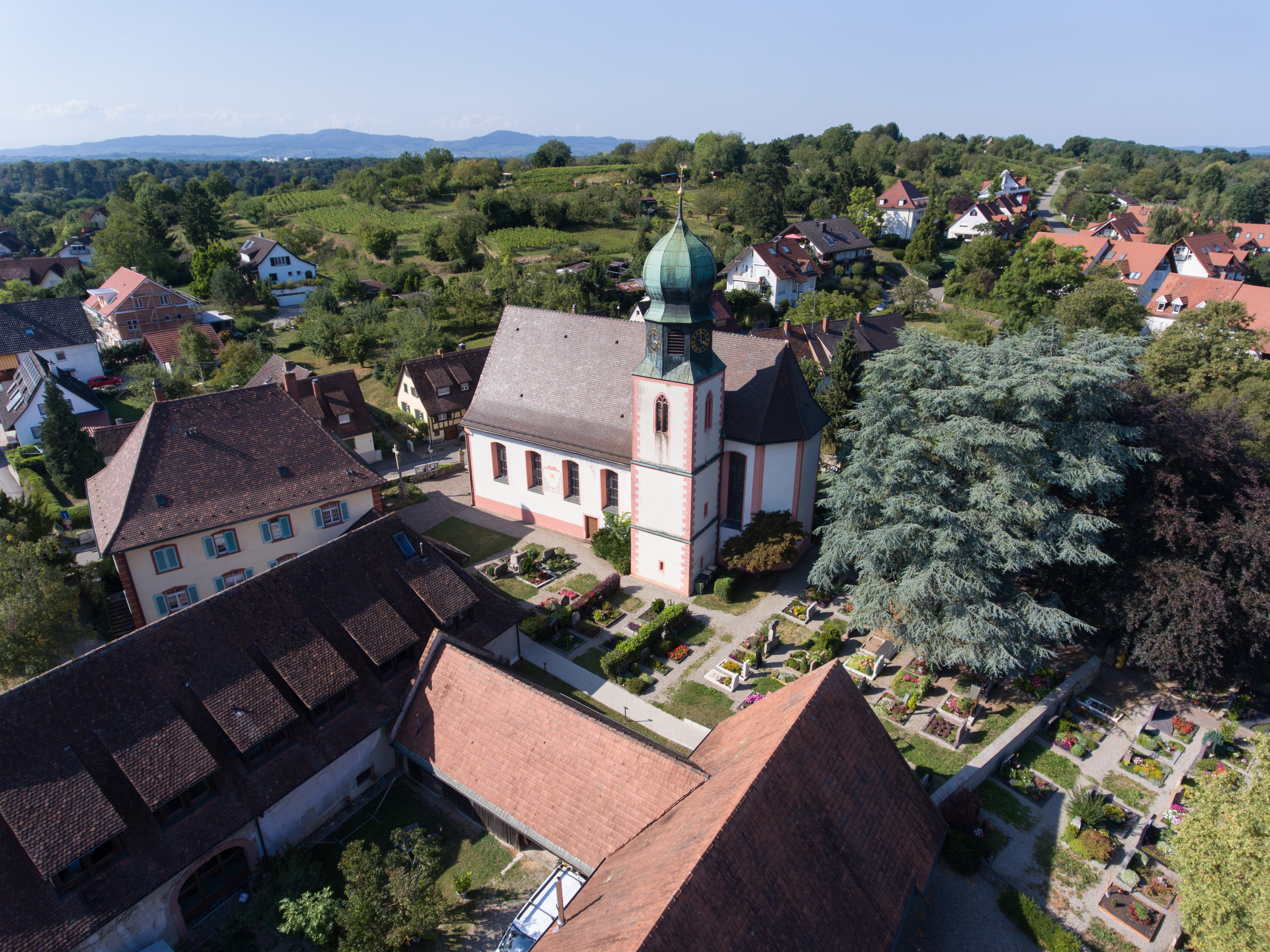 Aerial view St. Cyriak Freiburg-Lehen